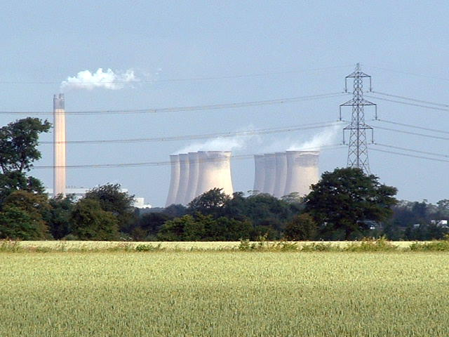 Eggborough Power Station, viewed from Park Lane, West Cowick, East Riding of Yorkshire, England.